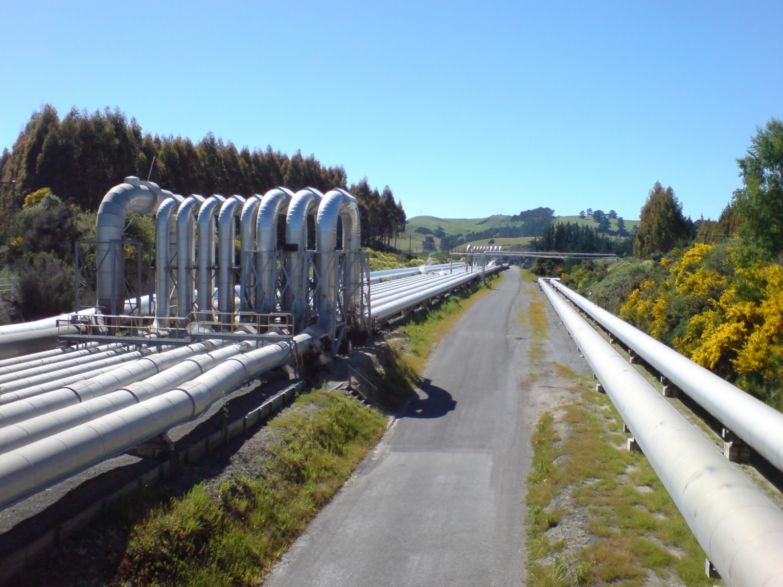 Steam pipelines leading from a steamfield near Lake Taupo to the geothermal power plant at Wairakei, Region of Waikato, New Zealand. Photo taken from the bridge carrying State Highway 1 over the pipeline stretch.